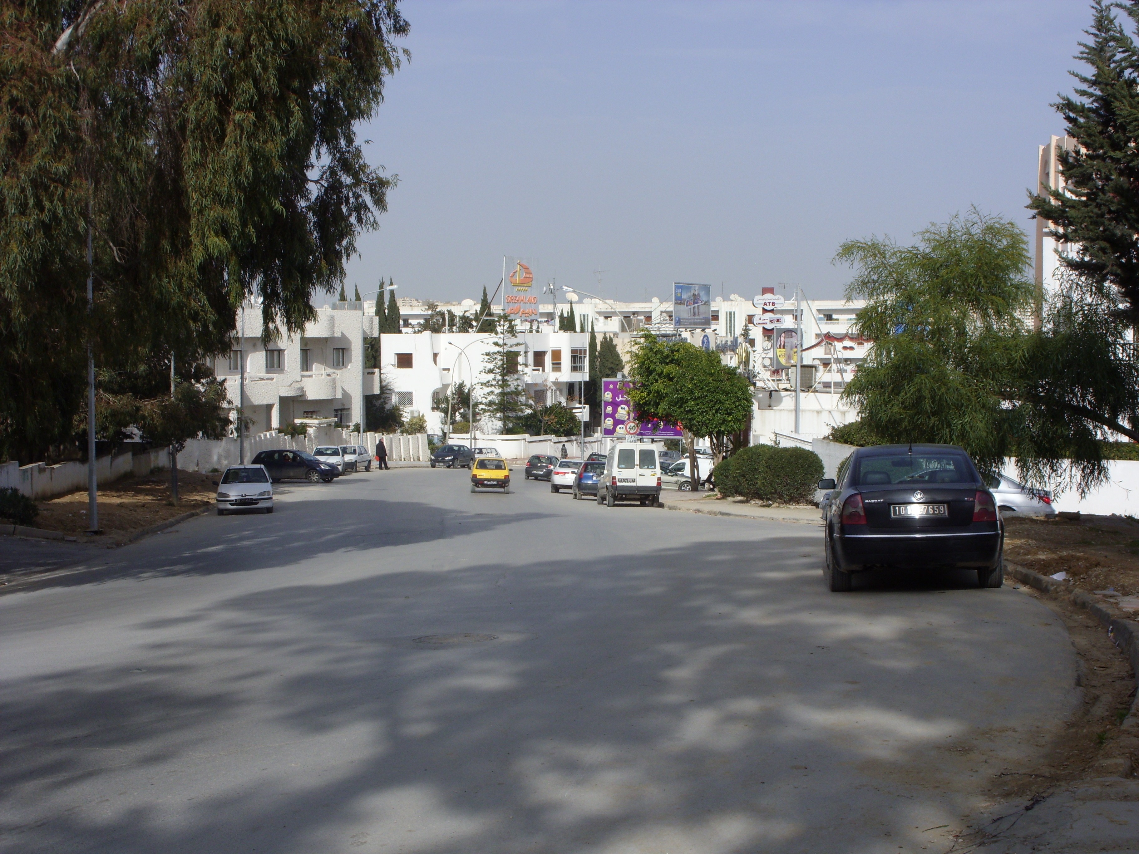 Youssef Rouissi street in Manar 2, Tunis